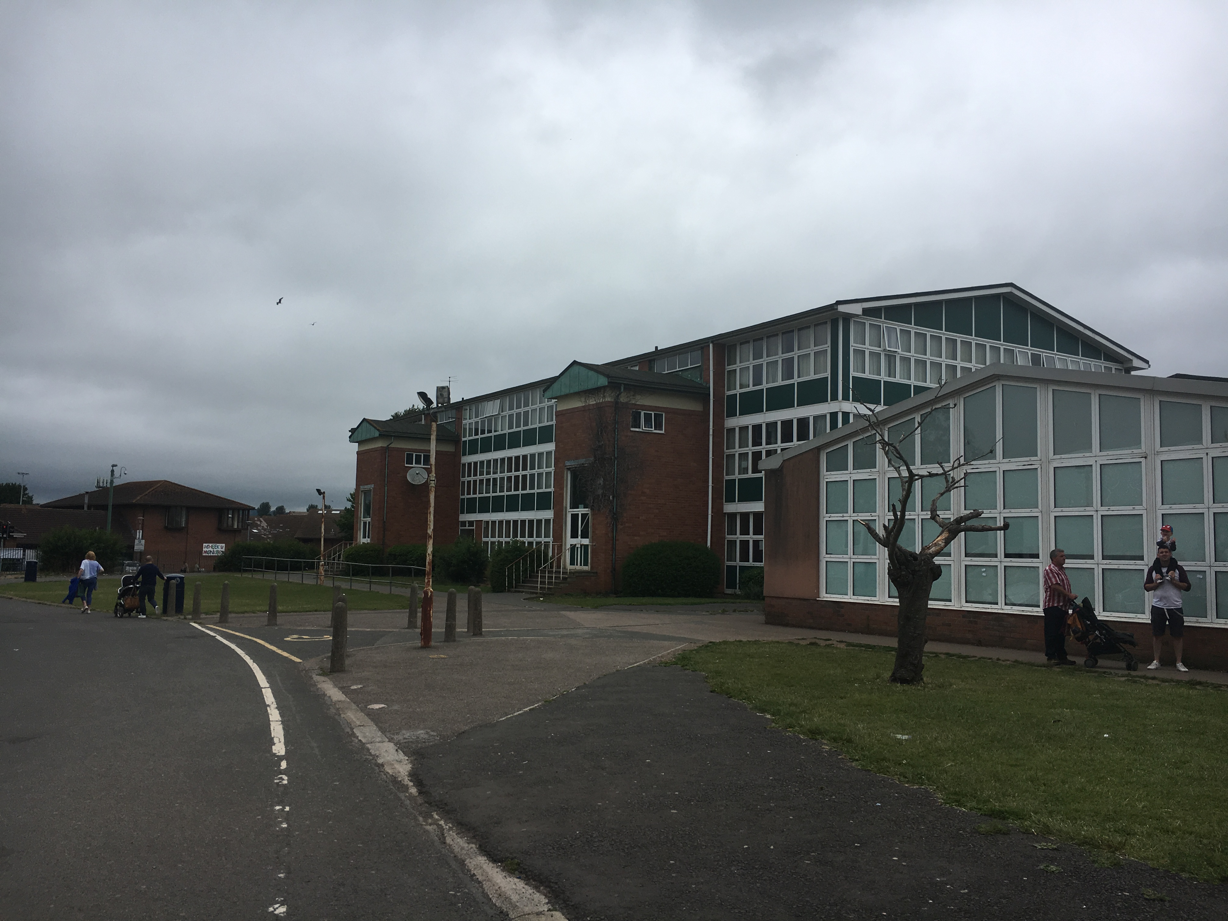 Grayhill Building of Caldicot School on the school's 2017 summer fete.